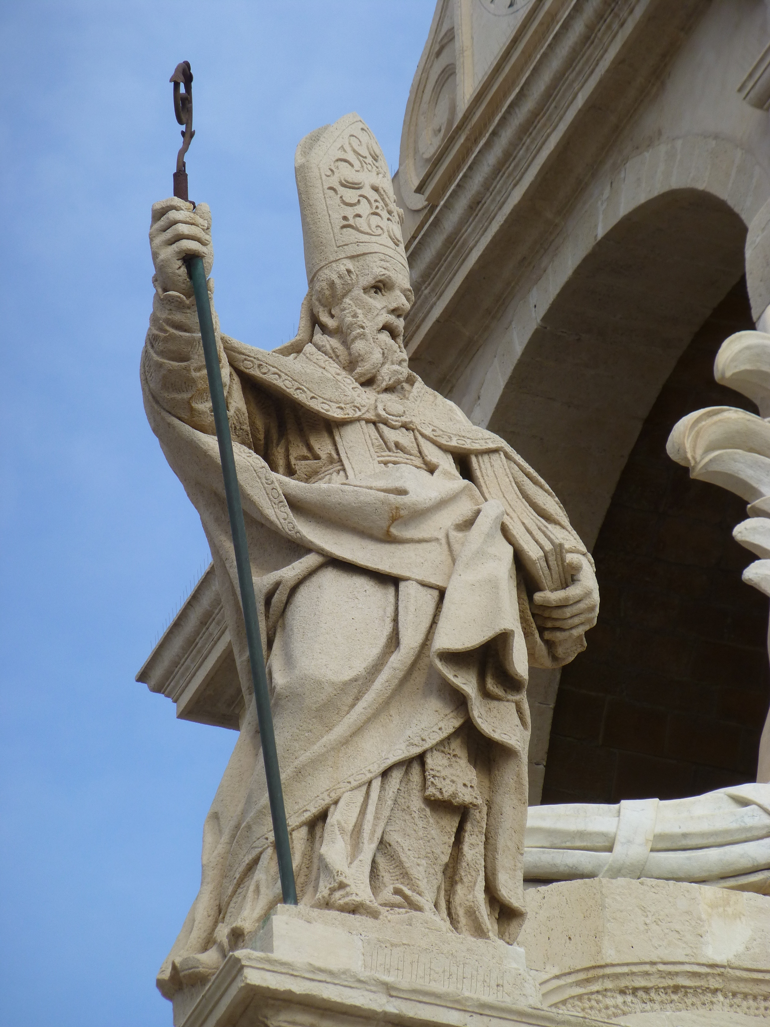 Ignazio Marabitti (1719-1797), Saint Martianus (1757). Statue atop of the Facade of the Cathedral in Syracuse, Italy.